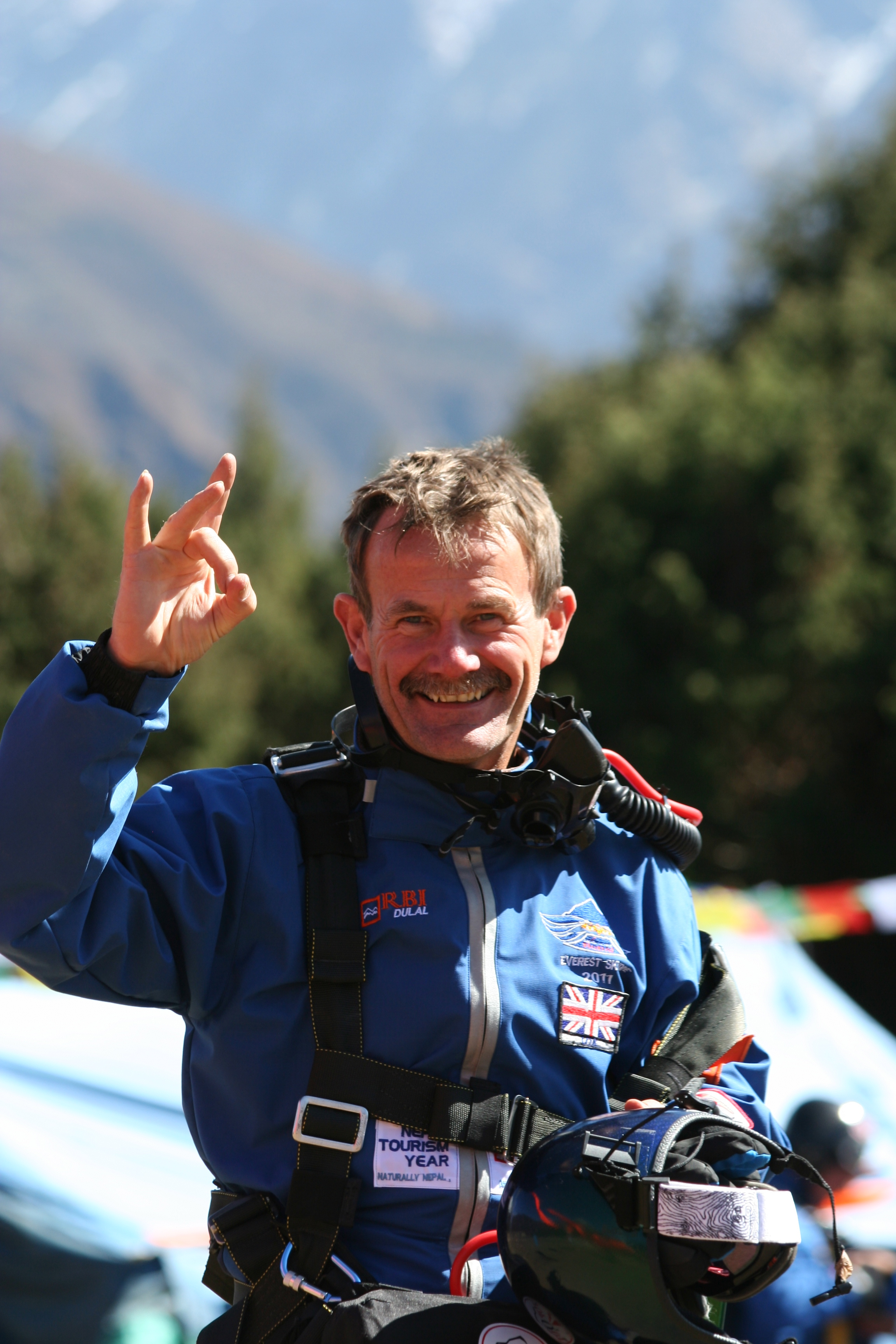 Ted on Everest Skydive